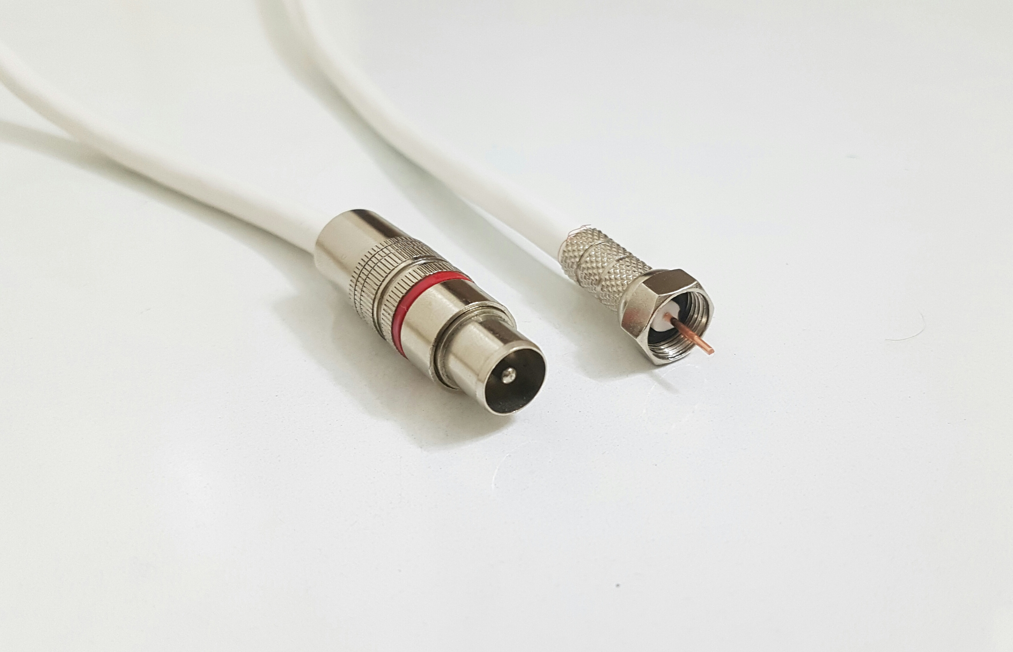 TV antenna connectors